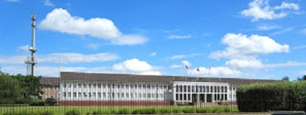 Photo of JHQ Rheindahlen